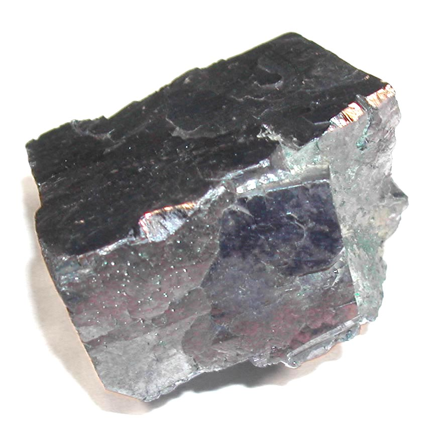 A picture of a galena crystal from the city of Galena, Kansas, USA. better version